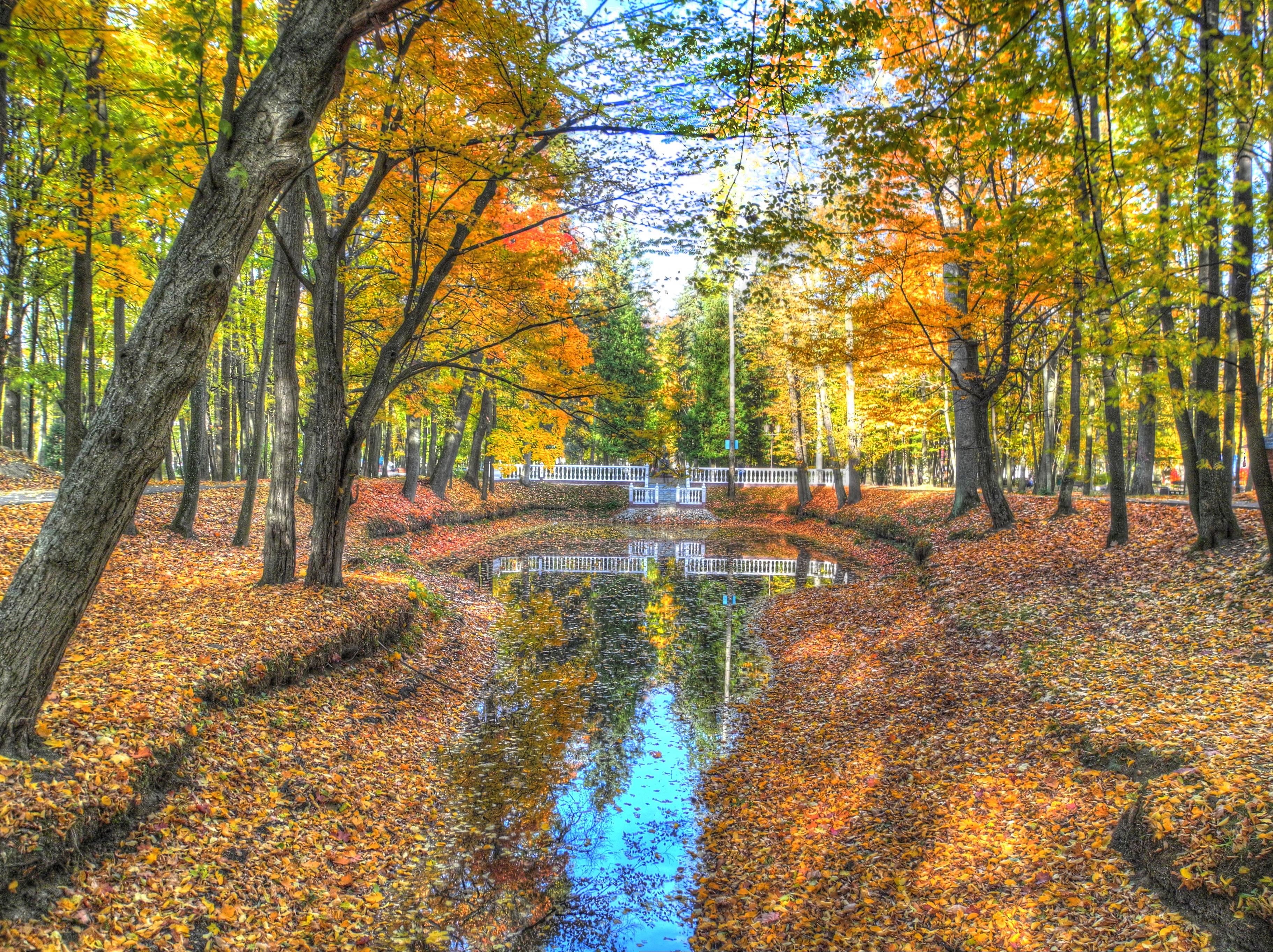 park, lake